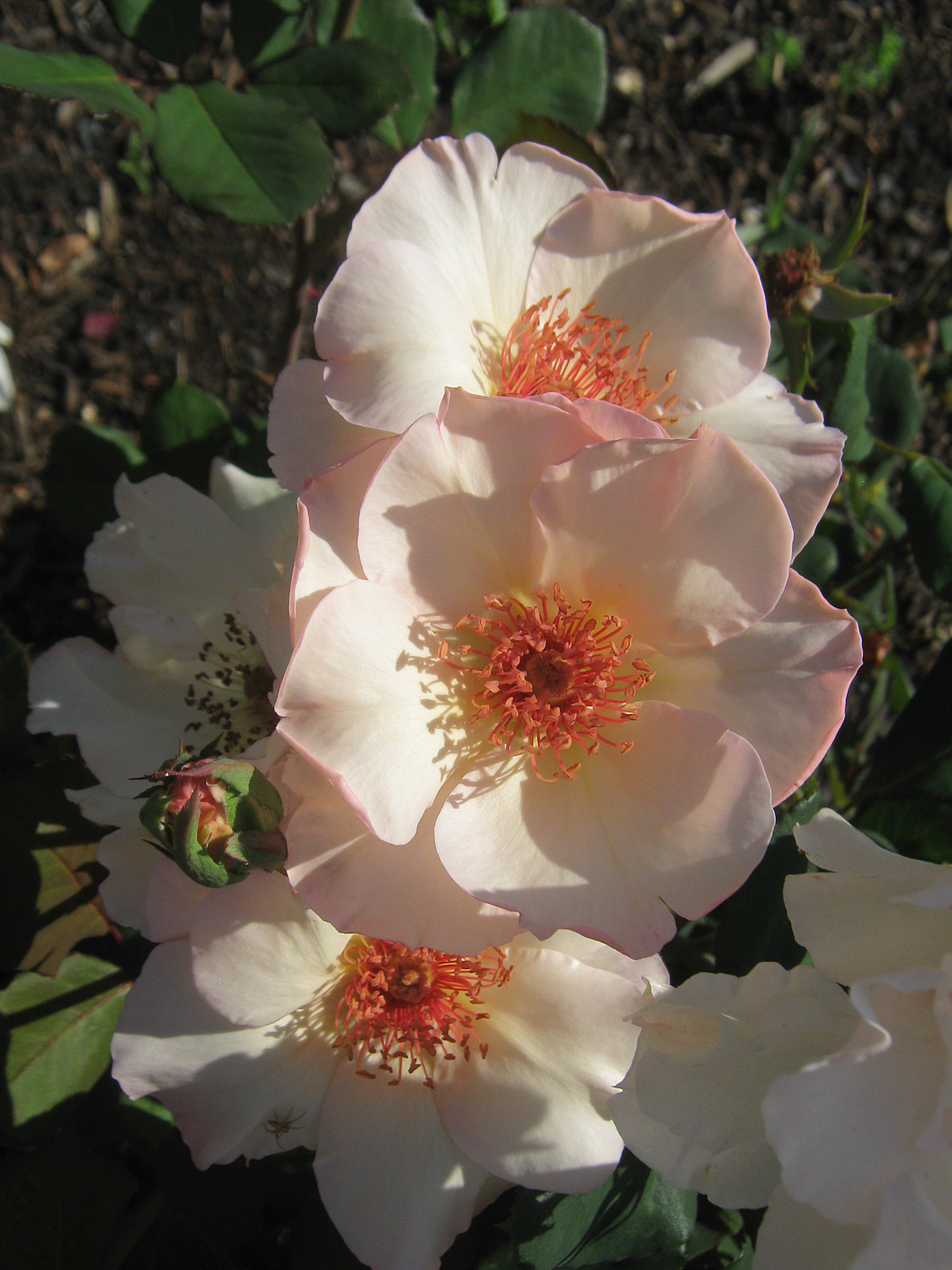 Rose 'Ellen Willmott' Archer 1935 single hybrid tea